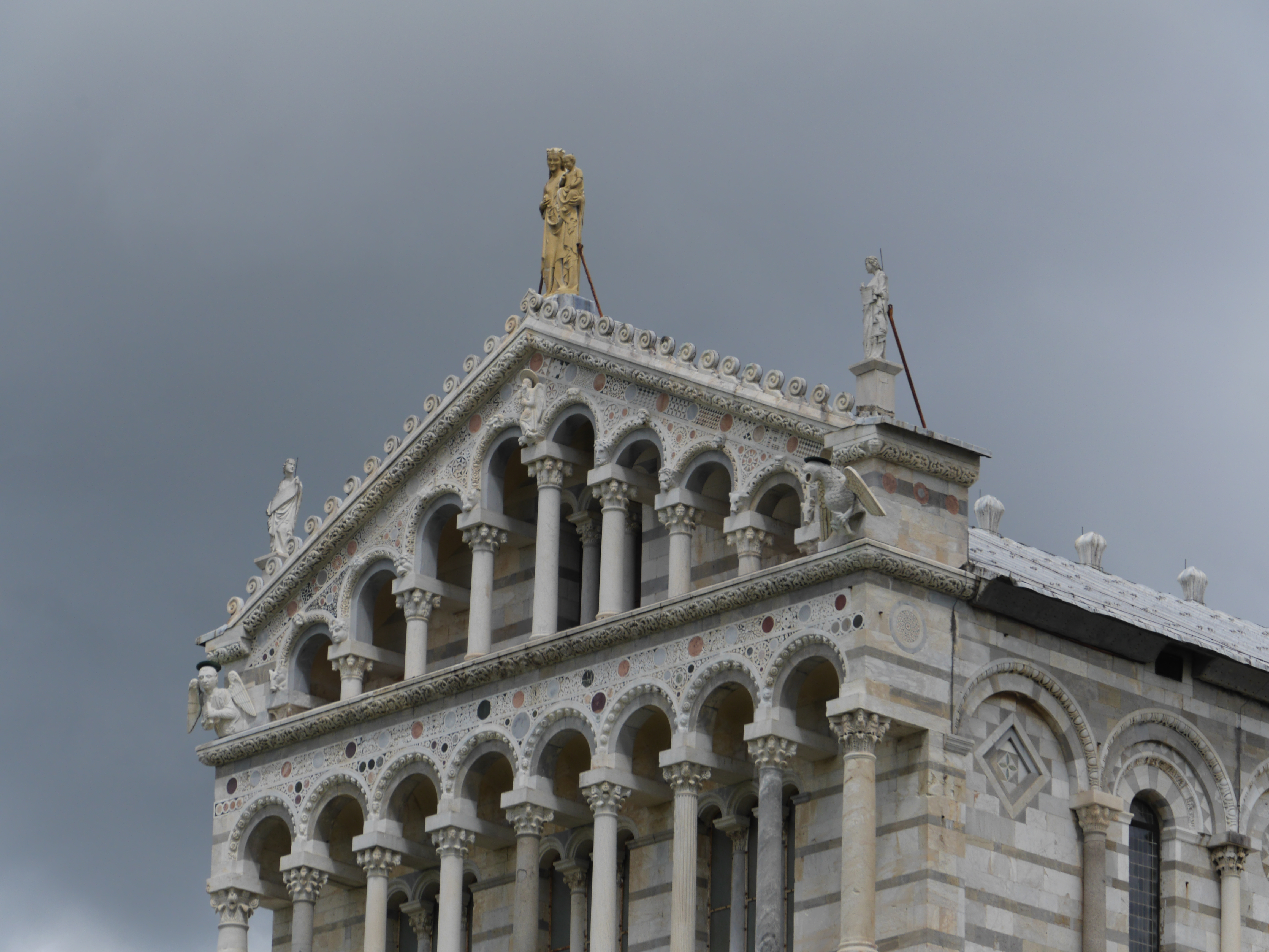 This photo was taken with Panasonic Lumix DMC-GH3 camera, thanks to Panasonic. You can see all photographs in category: Taken with Panasonic Lumix DMC-GH3.